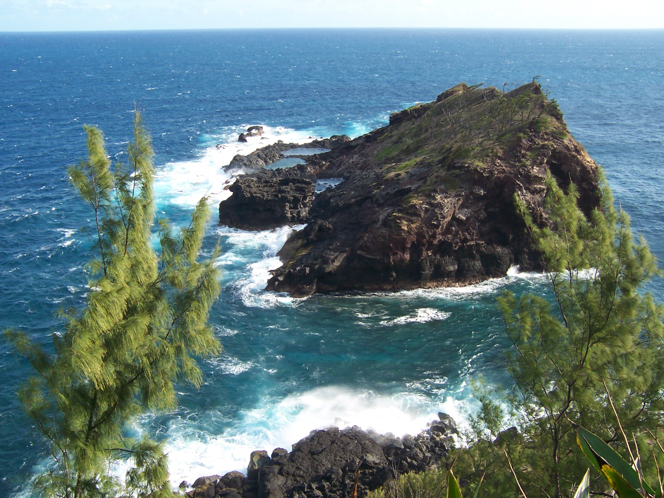 The Petite-Île islet, the only one off Réunion island